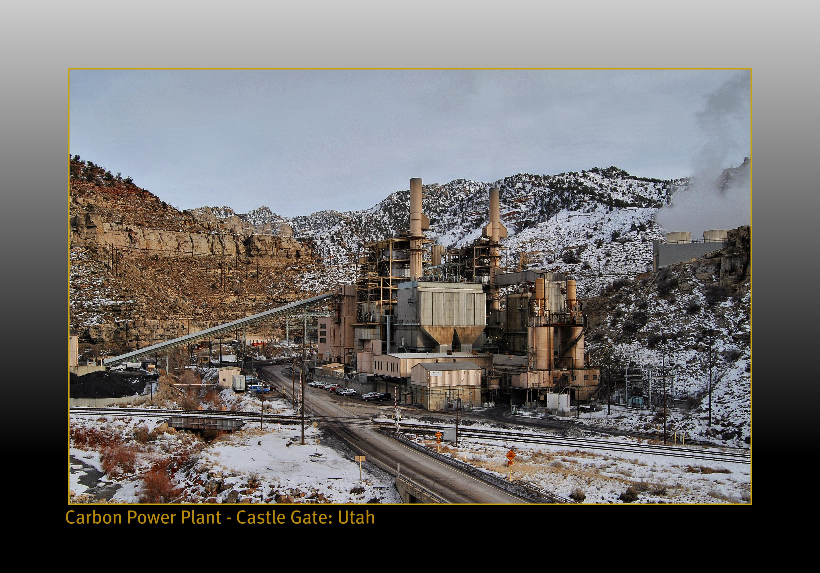 Carbon power plant at Castle Gate Utah